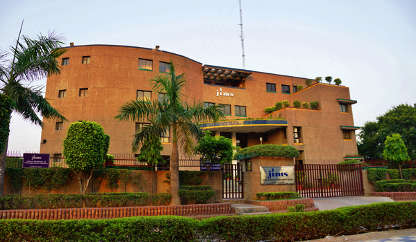 Jagan Institute of Management Studies (JIMS) official Building Pic.